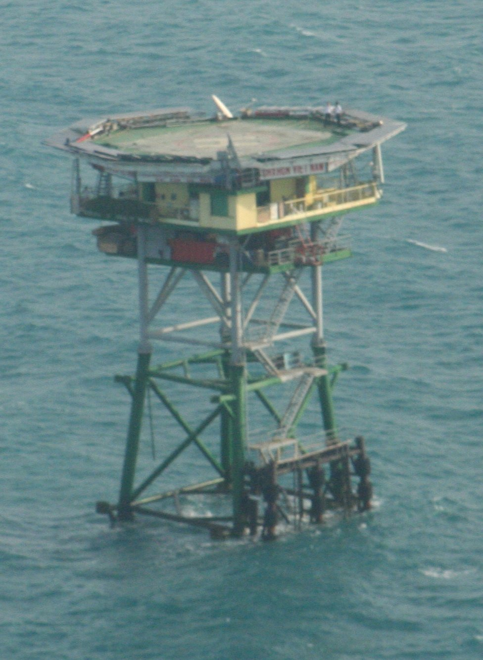 Cropped version of photo of DK1/10 at Ca Mau Shoals - refer DK1 rigs